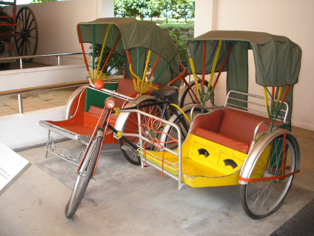 These trishaws (beca) originated from Parit Jawa, Muar, Johor. They are painted green, red, black and yellow, colours popular to that era. The seat, which comes complete with a backrest, is padded with coconut husk. They can carry two adult passengers plus one or two children. The hood is made of canvas, which can easily be opened or closed when necessary. On the left trishaw, the driver pedals behind the passengers. On the right trishaw, the driver pedals to the right of the passengers.